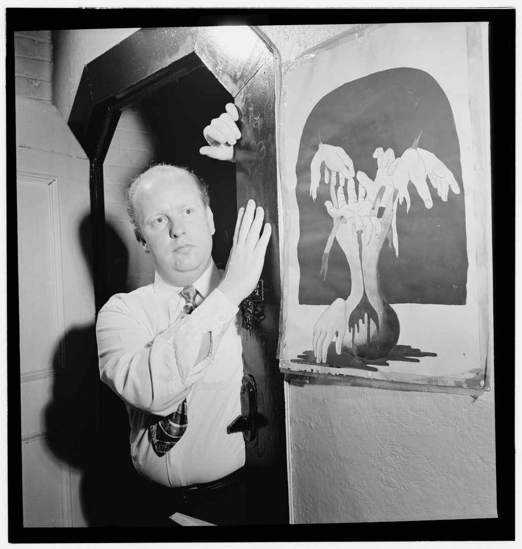 Edwin Finckel by Gottlieb, William P., 1917-, photographer. [Portrait of Edwin A. Finckel in his home, Greenwich Village, New York, N.Y., ca. Nov. 1946] 1 negative : b&w ; 2 1/4 x 2 1/4 in. Notes: Gottlieb Collection Assignment No. 508 Purchase William P. Gottlieb Forms part of: William P. Gottlieb Collection (Library of Congress). Subjects: Finckel, Edwin A. Jazz musicians--1940-1950. Format: Portrait photographs--1940-1950. Film negatives--1940-1950. Rights Info: Mr. Gottlieb has dedicated these works to the public domain, but rights of privacy and publicity may apply. Repository: (negative) Library of Congress, Prints & Photographs Division, Washington D.C. 20540 USA, Part Of: William P. Gottlieb Collection (DLC) 99-401005 General information about the Gottlieb Collection is available at Persistent URL: Call Number: LC-GLB23- 1144